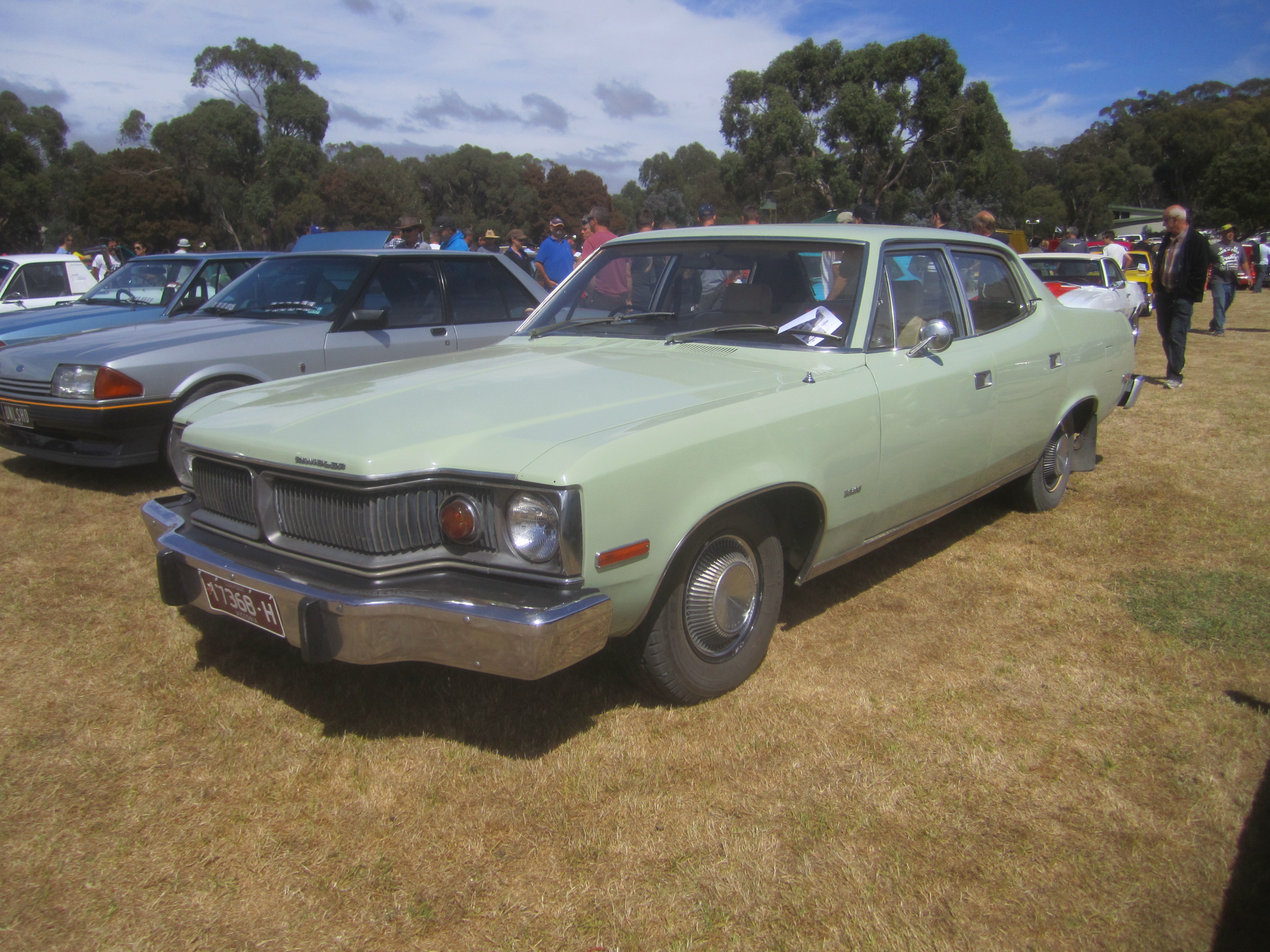 The AMC Matador was built from 1971-78, the 1st generation , 71-73 replaced the Rebel as AMCs mid size car. These 2nd generation cars got larger protruding bumpers, and a coffin shaped protruding grille to match. AMC cars were assembled in Australia by AMI from 1954-78, they were all marketed as Ramblers, this car is an Australian Rambler Matador. Engines 258 cu in 6 cyl or 360 cu inV8